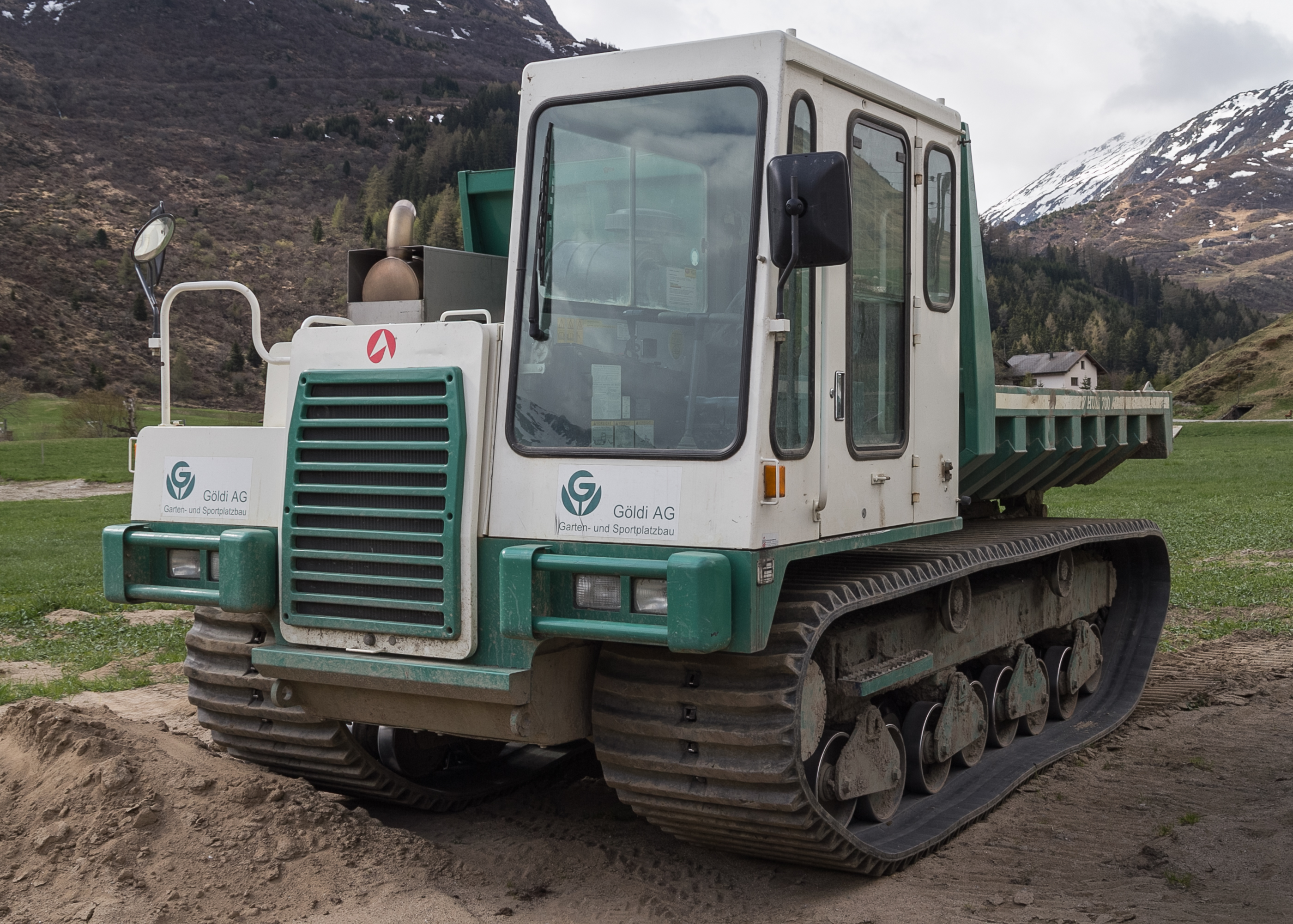 IHI IC70-2 Crawler Carrier